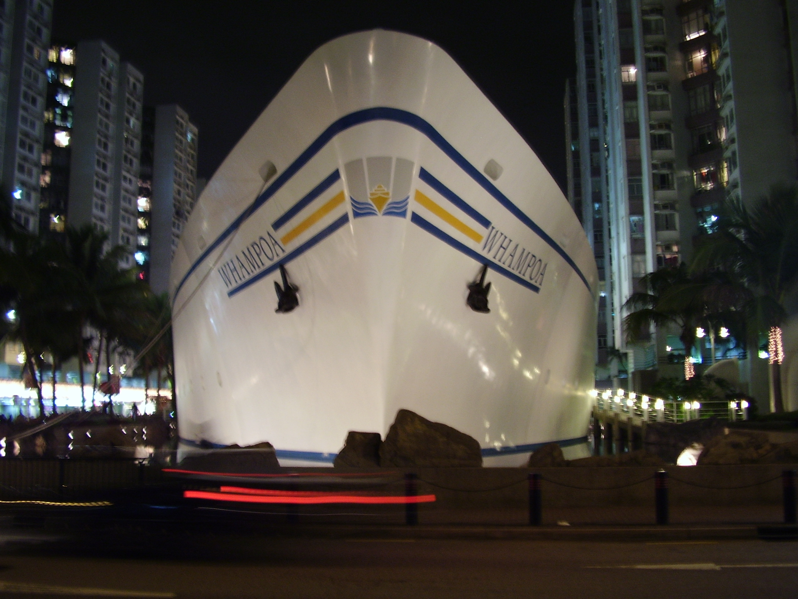 The ship-like "Whampoa" shopping centre in Whampoa Garden in Hong Kong.